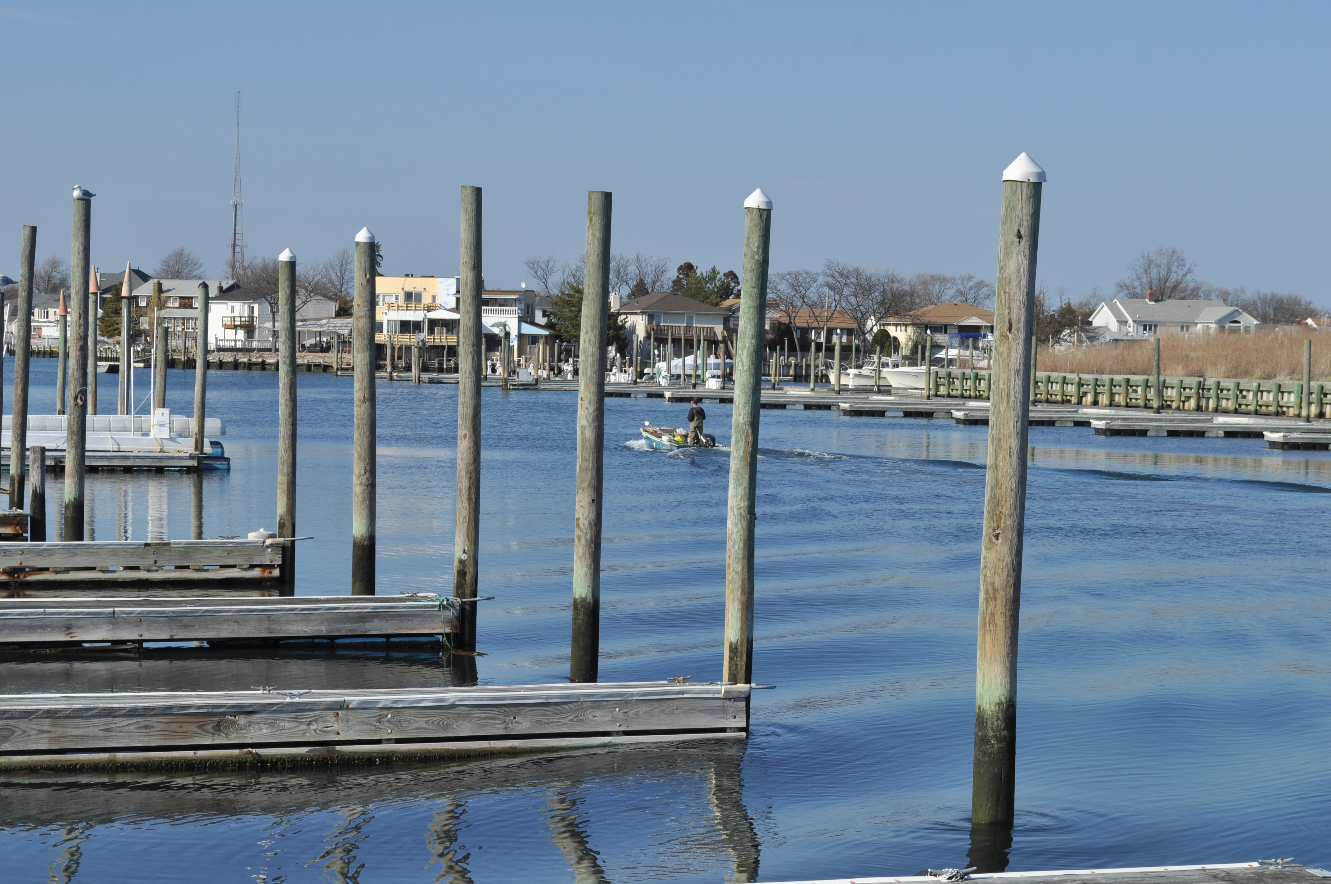 Hudson Canal, Freeport, Long Island, New York, looking north from near Overton Street.